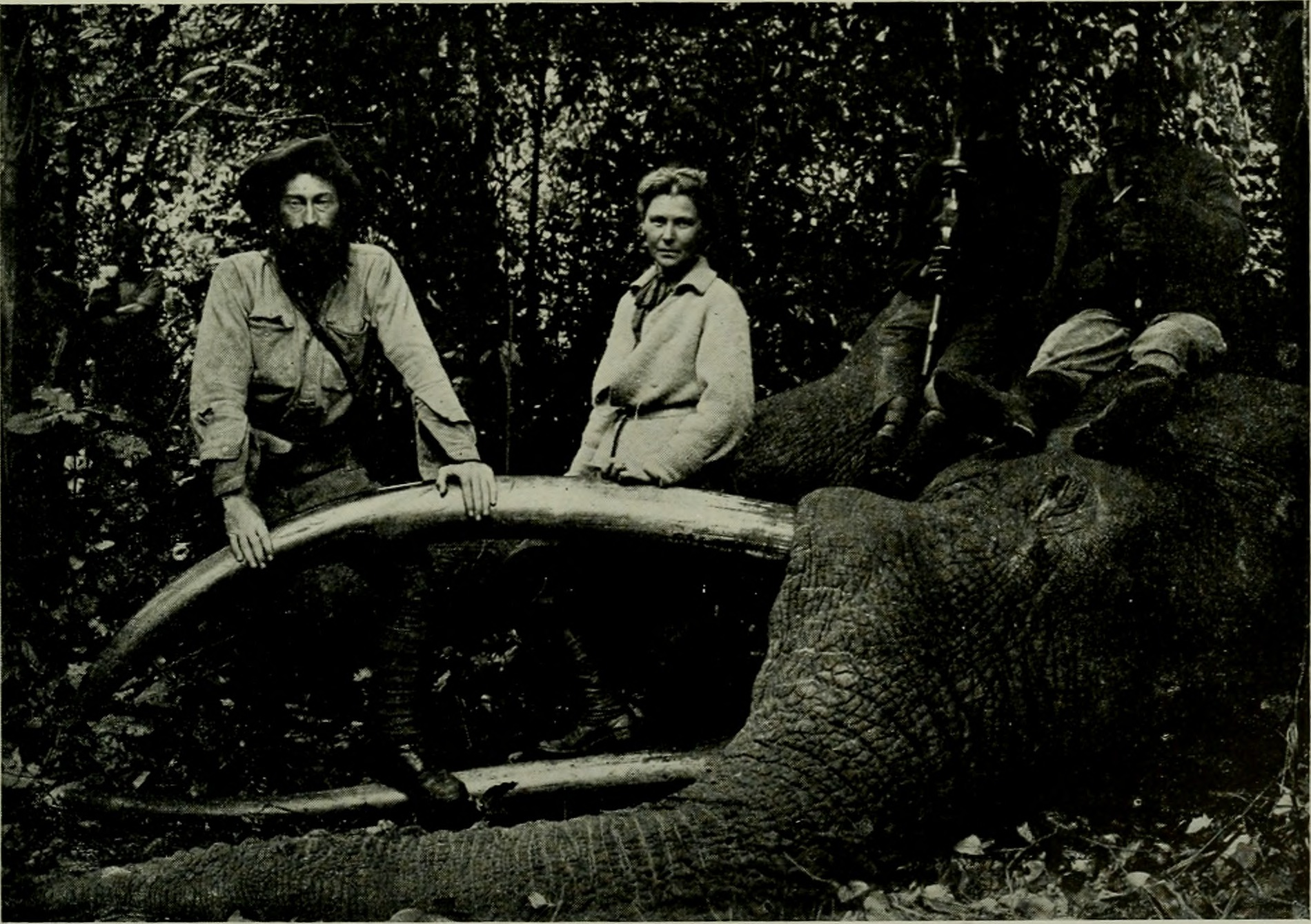 Delia Akeley with her kill, photo by Carl Akeley. On the left: Richard John Cuninghame Title: The American Museum journal Year: c1900-(1918) (c190s) Authors: American Museum of Natural History Subjects: Natural history Publisher: New York : American Museum of Natural History Text Appearing Before Image: Tree trunk in the Kenya jungle polished by elephants Text Appearing After Image: Mrs. Akeley and Cunningham, with the Kenya record elephant shot by Mrs. Akeley. This elephant stood eleven feet two inches high at the shoulders and carried ttisks weighing 112 and 115 pounds 333